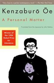 Cover of "A Personal Matter"